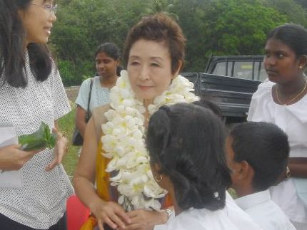 The United Nations Environment Programme (UNEP) Special Envoy Ms. Tokiko Kato visited the Sarvodaya Headquarters on 5th September 2005